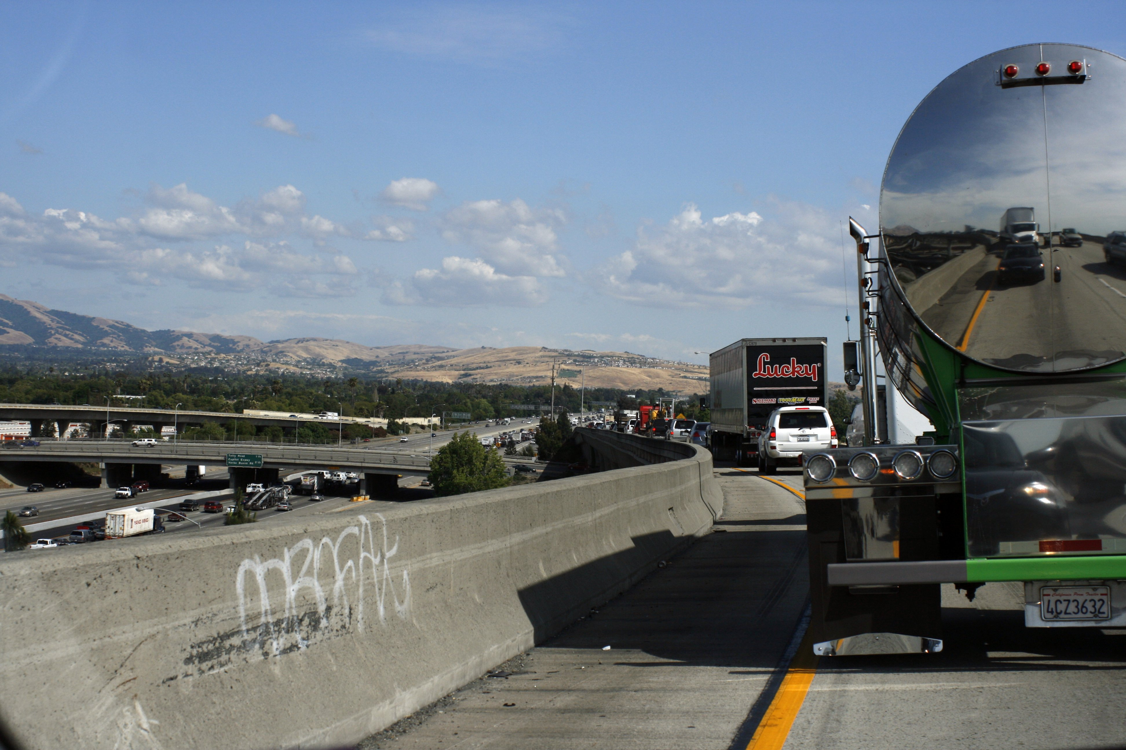 traffic jam in San Jose, California: ramp from the I-280/I-680 handover point, over Story Road (mid-level at left), to southbound Bayshore Freeway (US 101, lowest level at left) around US 101 postmile 34.5